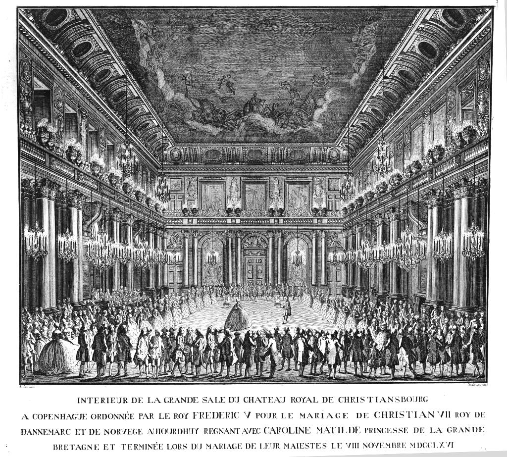 A copperplate engraving depicting the first dance of King Christian VII and Queen Caroline Mathilde of Denmark at their wedding on 8 November 1766 at Christiansborg Palace. Further information about the wedding here.